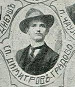 Portrait of IMARO member Sp. Dimitrov from Gradovo